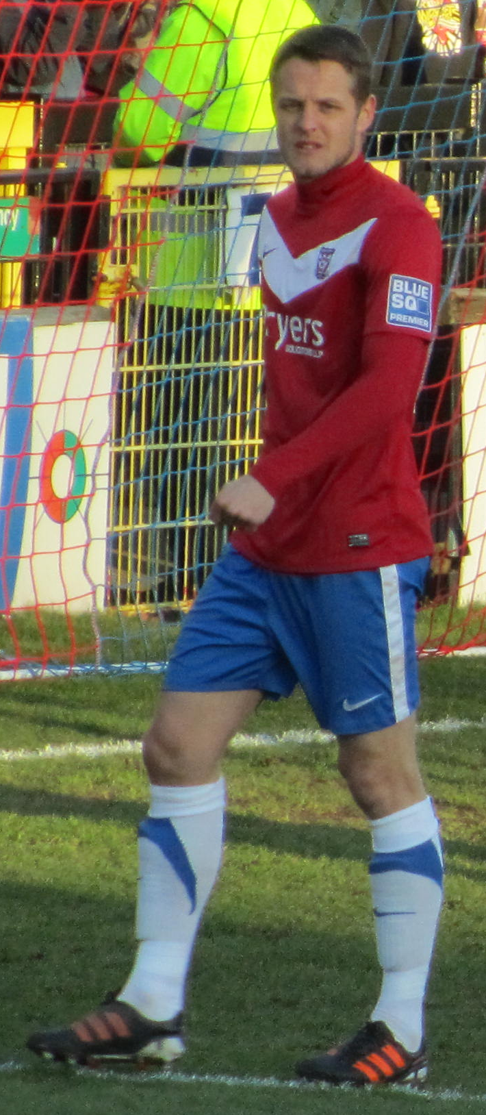 Matthew Blinkhorn